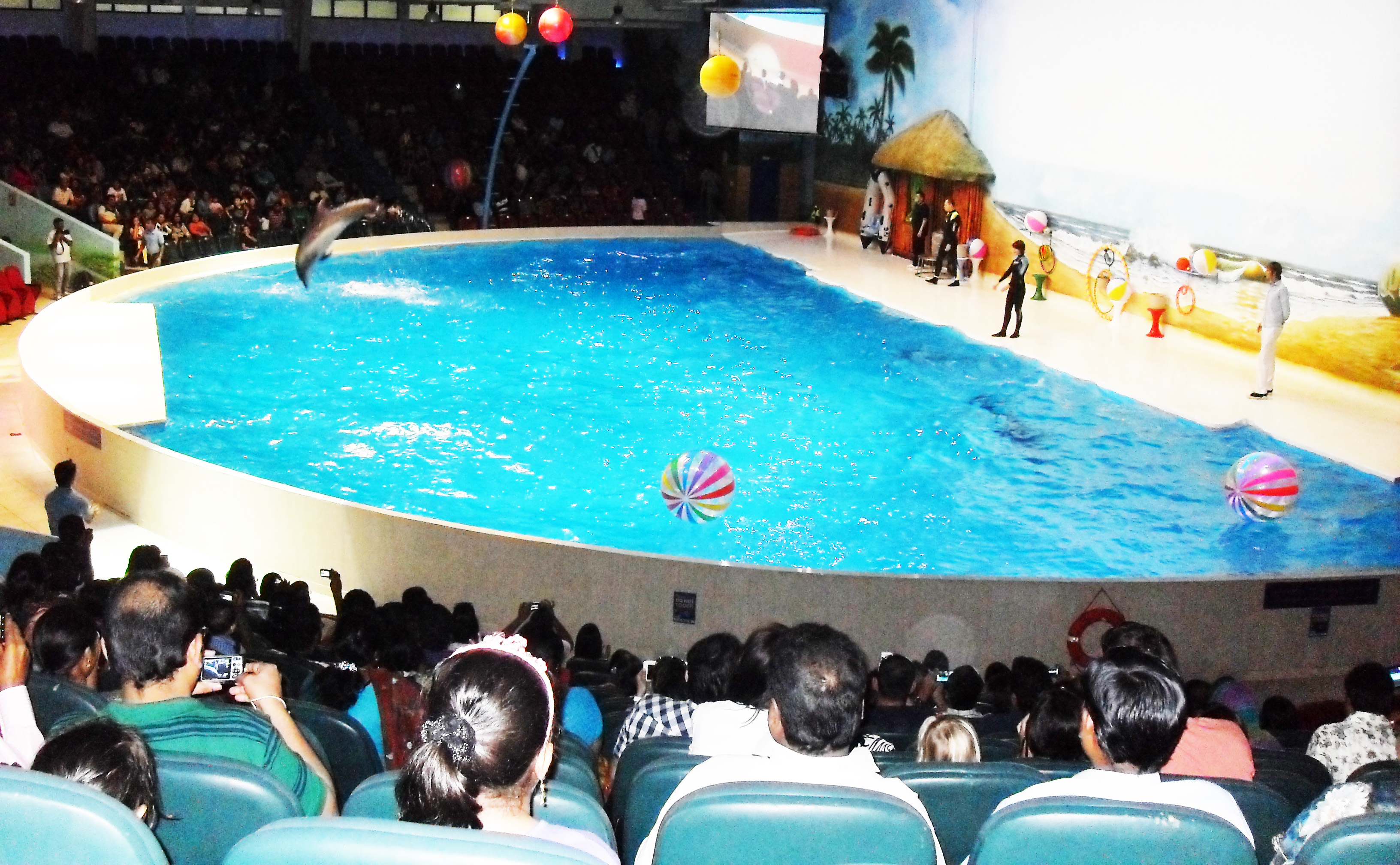 Snapshot of dolphin show held at Dubai dolphinarium taken by me.